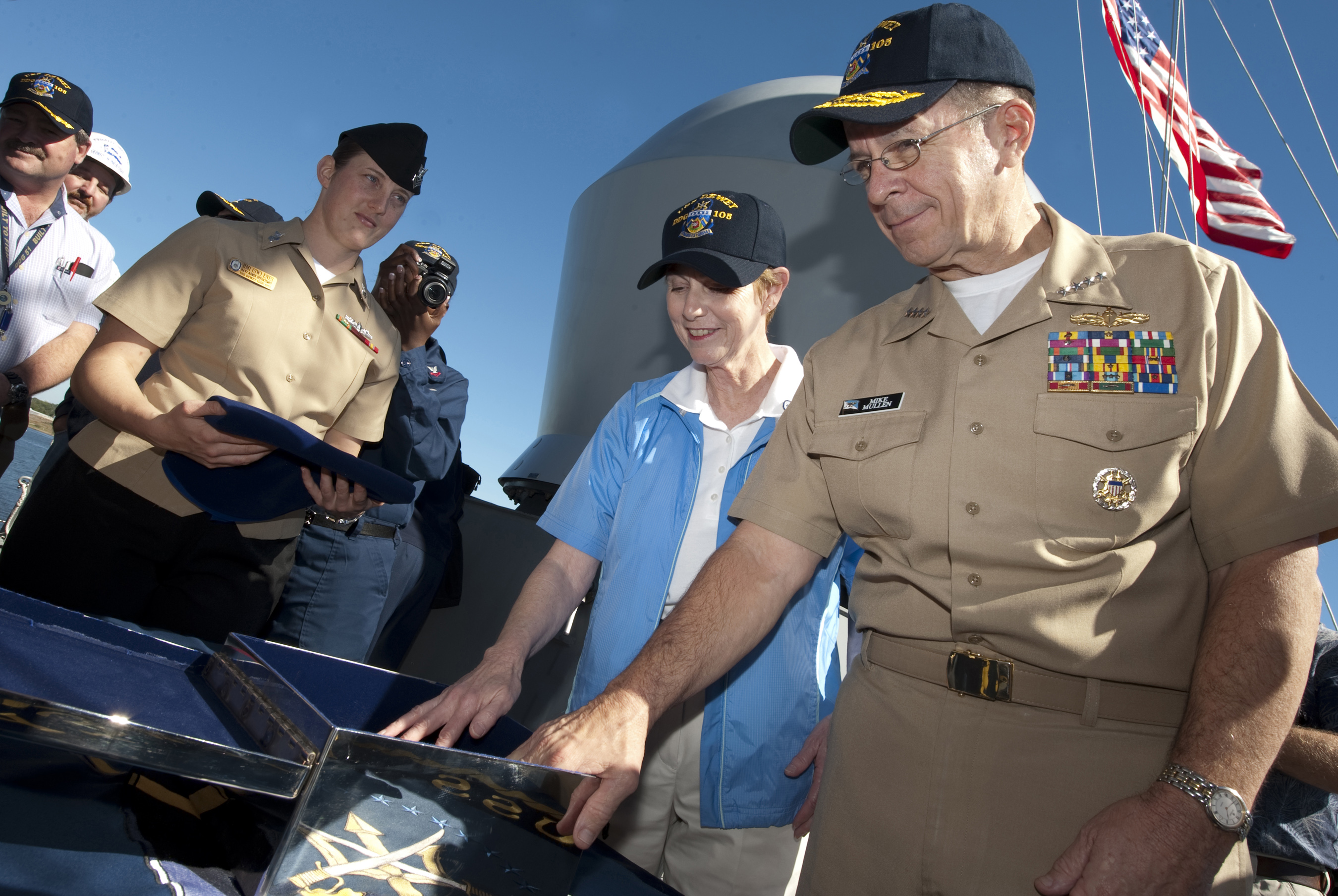 PASCAGOULA, Miss. (Nov. 1, 2009) Adm. Mike Mullen, chairman of the Joint Chiefs of Staff, and his wife, Deborah Mullen, lay good luck pieces into a steel box to be placed in the mast of the guided-missile destroyer Pre-Commissioning Unit (PCU) Dewey (DDG 105), during a mast stepping ceremony at Northrop Grumman Shipbuilding in Pascagoula, Miss. Deborah Mullen is the ship's sponsor. The pieces will remain sealed in the ships super structure until Dewey is decommissioned. (U.S. Navy photo by Mass Communication Specialist 1st Class Chad J. McNeeley/Released)